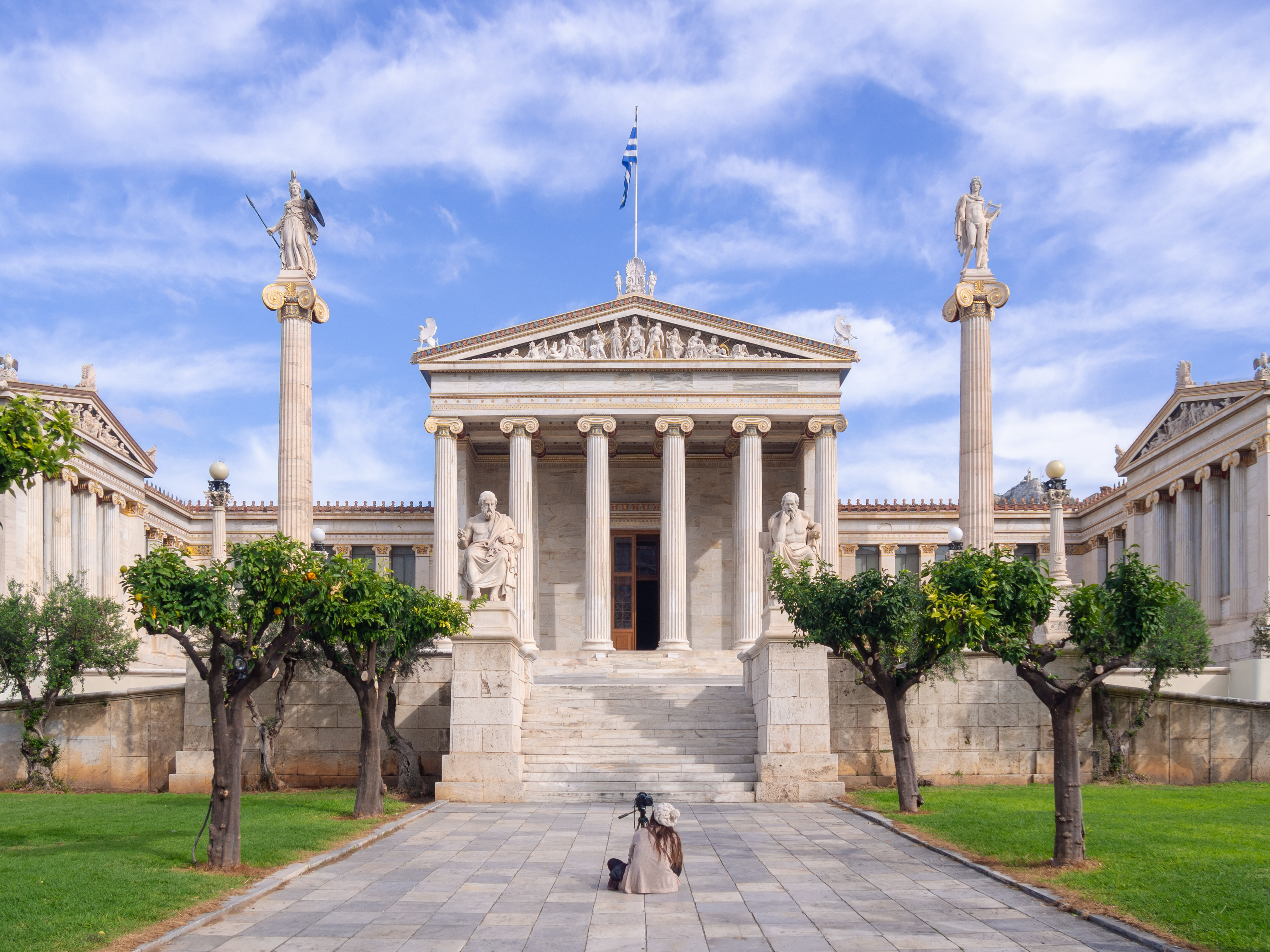 The facade of the Academy of Athens«Μέγαρο Ακαδημίας Αθηνών»